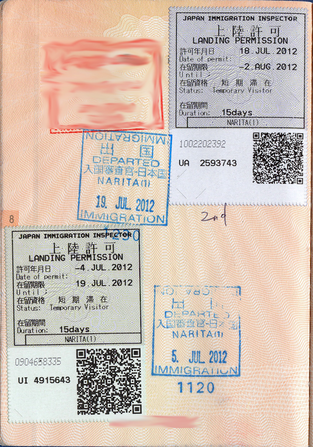 Japan entry and exit stamps (15 days) on PRC passport